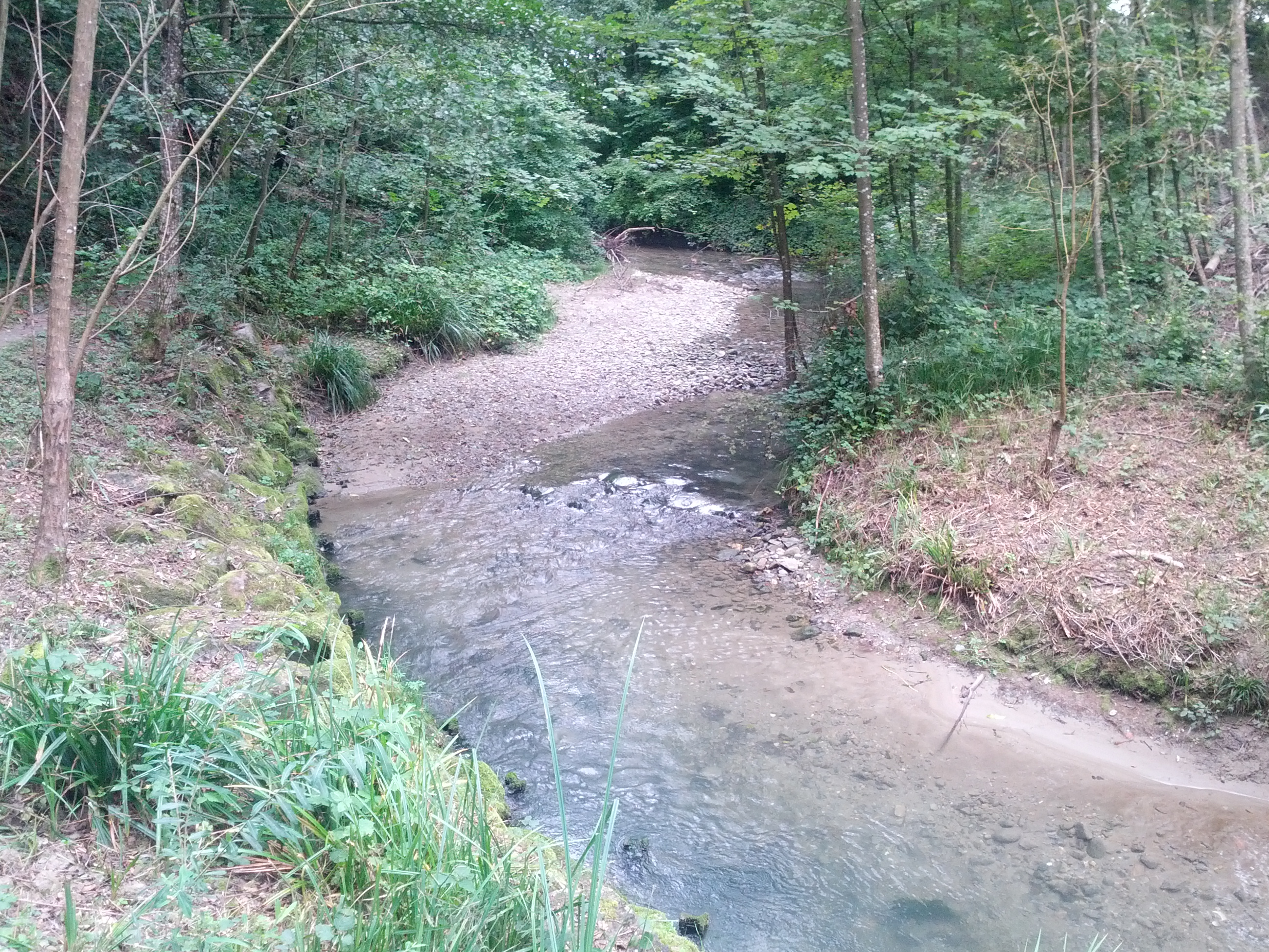 The Sorge flowing in the neighbourhood UNIL Sorge.